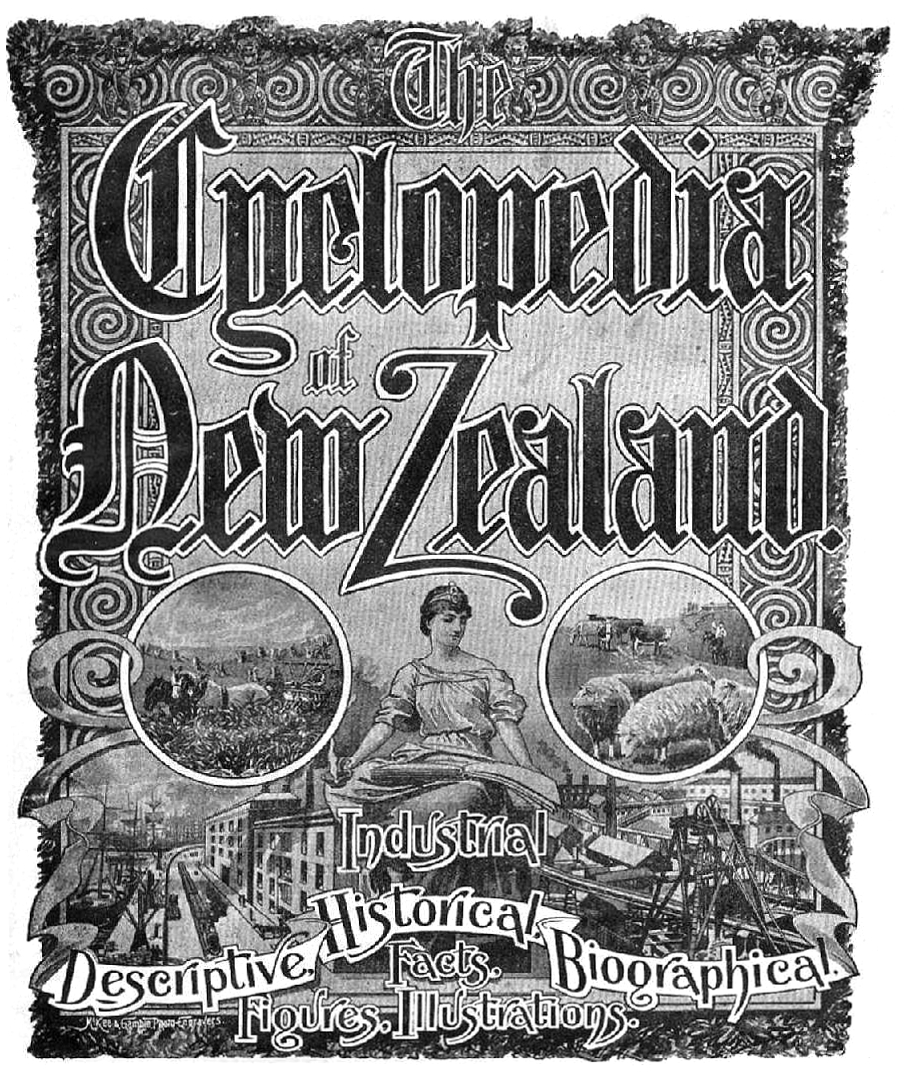 The title page from the Cyclopedia of New Zealand, published 1897-1908, via New Zealand Electronic Text Collection. Image squared and adjusted for contrast.